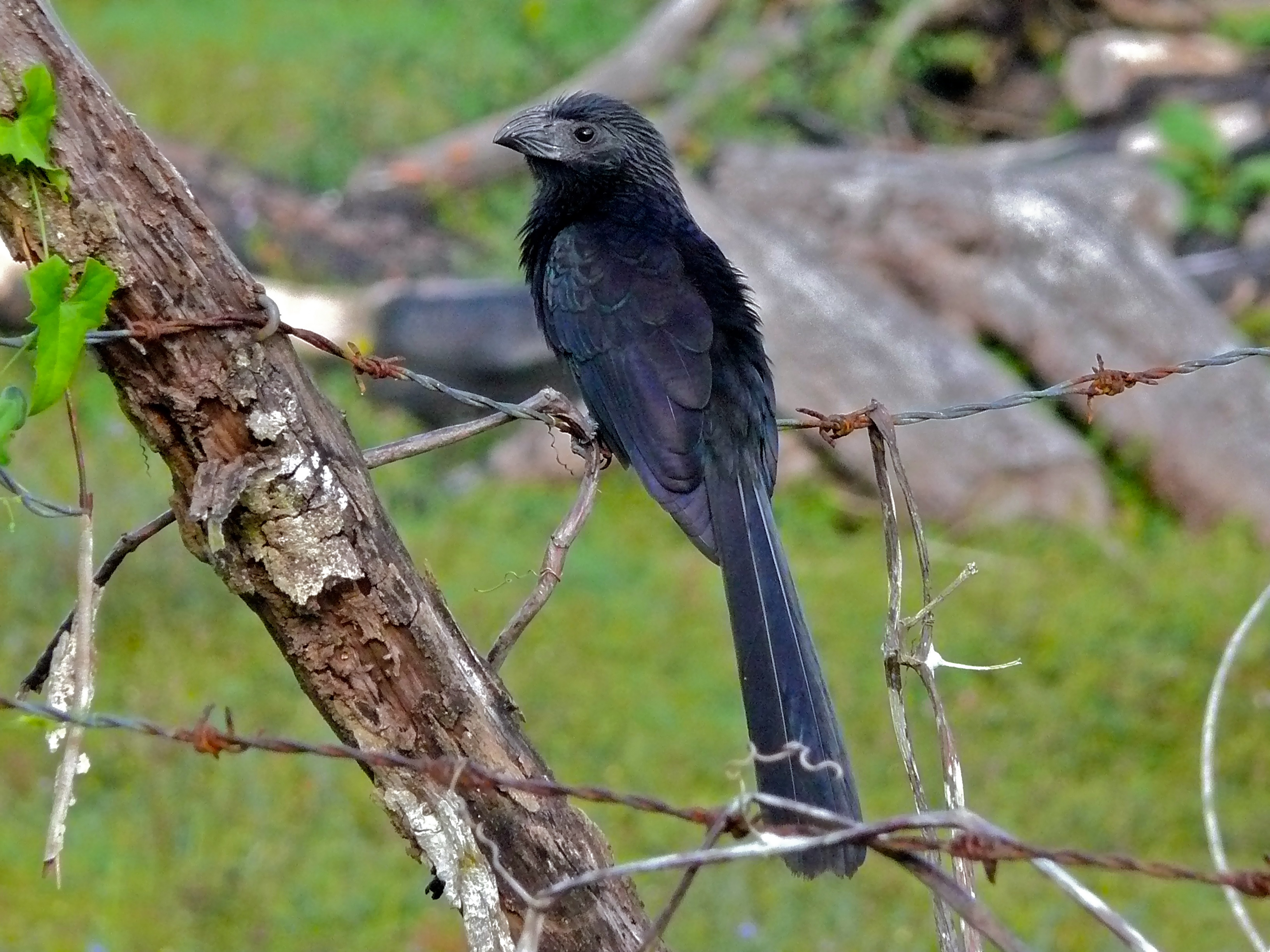 Crooked Tree Wildlife Sanctuary, BELIZE